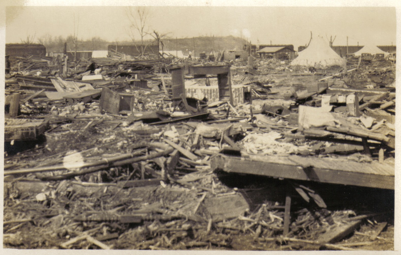 Self-made scan of photograph submitter owns. Depicts destruction of Griffin, Indiana in the 1925 Tri-State Tornado.